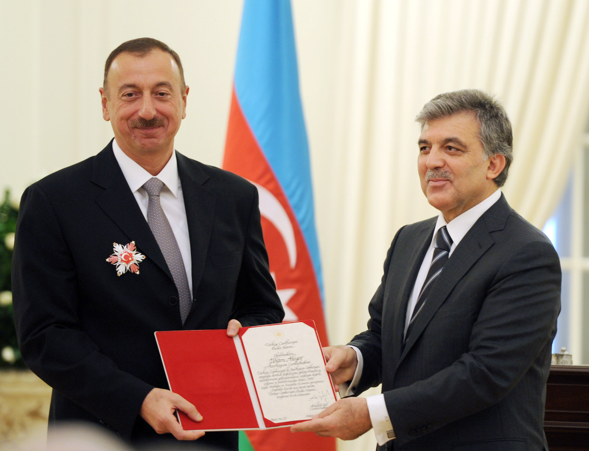 The presidents of Azerbaijan and Turkey have been awarded at Cankaya Palace with Order of the State and Heydar Aliyev Order, Ankara, Turkey.